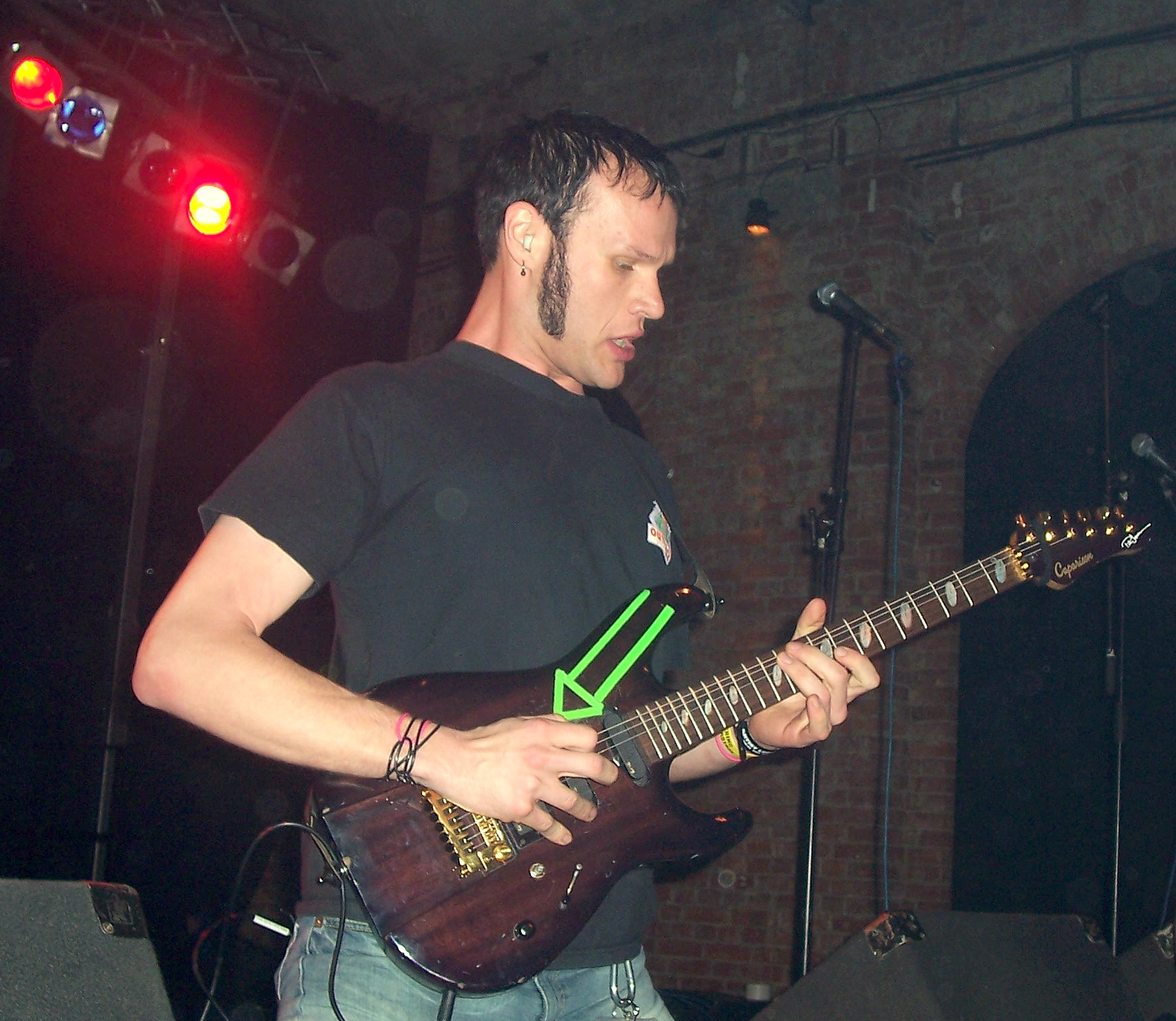 Adam Dutkiewicz - Dresden 2005, Juny 07